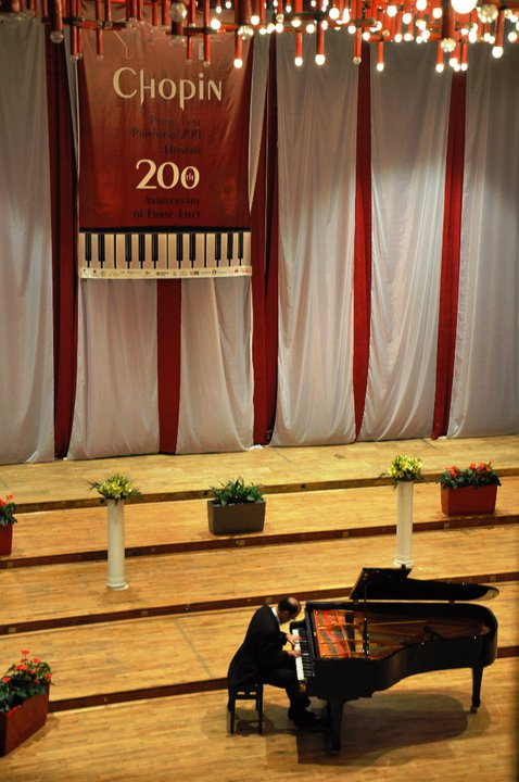 Gottlied Wallisch plays in the first edition of 'Chopin Fest'